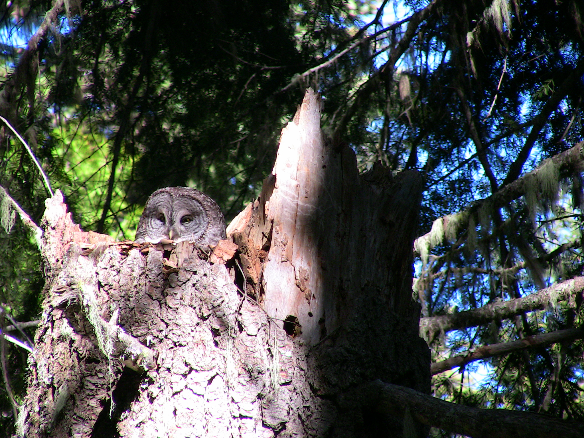 Nesting Great Gray Owl. Photo by Medford District biologist, Norm Barrett.